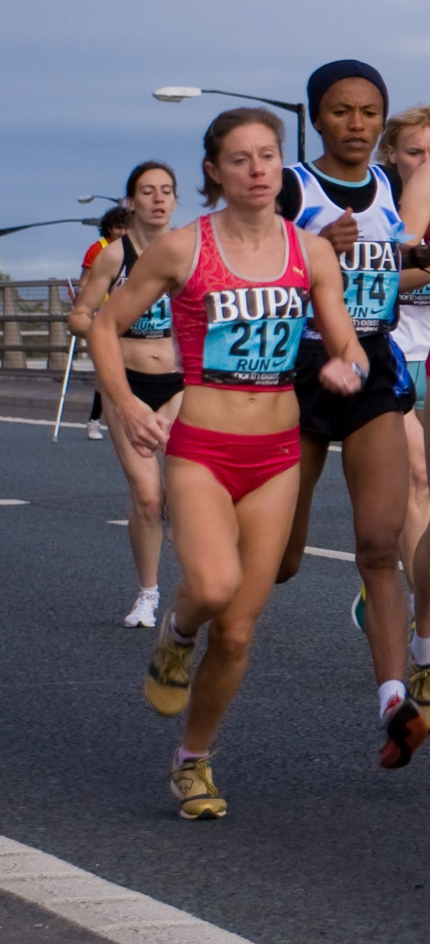 Hayley Yelling competing in the Great North Run in 2007